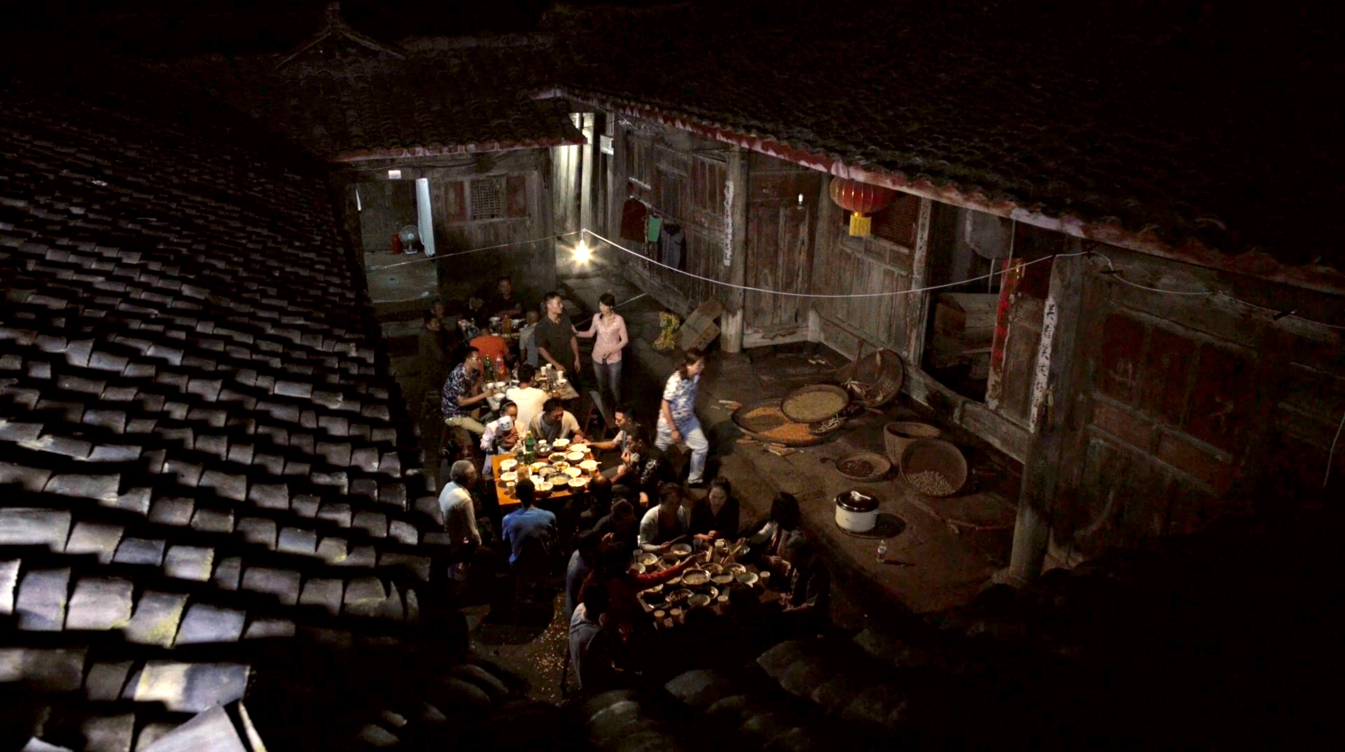 Picture 5 of Sunken Plum (Ciruela de agua dulce, Chen Li), a short film directed by Roberto F. Canuto and Xu Xiaoxi.